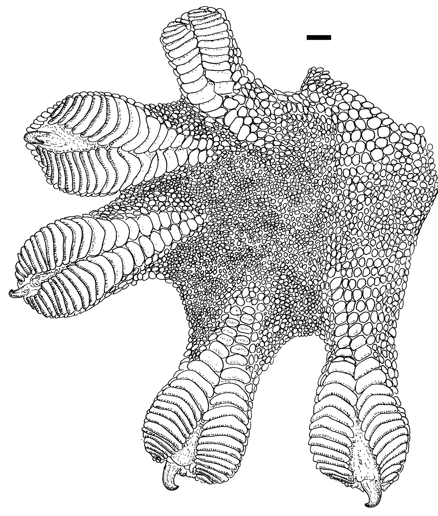 Right hind foot of holotype of Thecadactylus oskrobapreinorum (SMF 92120). Scale bar equals 1.0 mm.